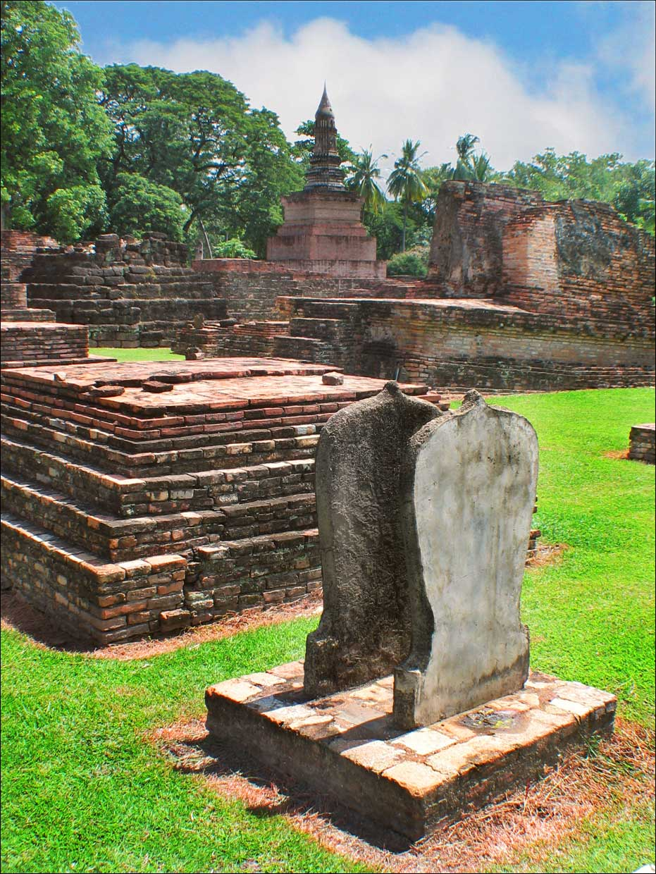 Bai Sema (sacred boundary stones), Wat Mahathat, Sukhothai, own photo 2004 (de: Bai Sema (Grenzsteine) im Wat Mahathat, Sukhothai, eig. Foto 2004) Bai_sema_1.jpg